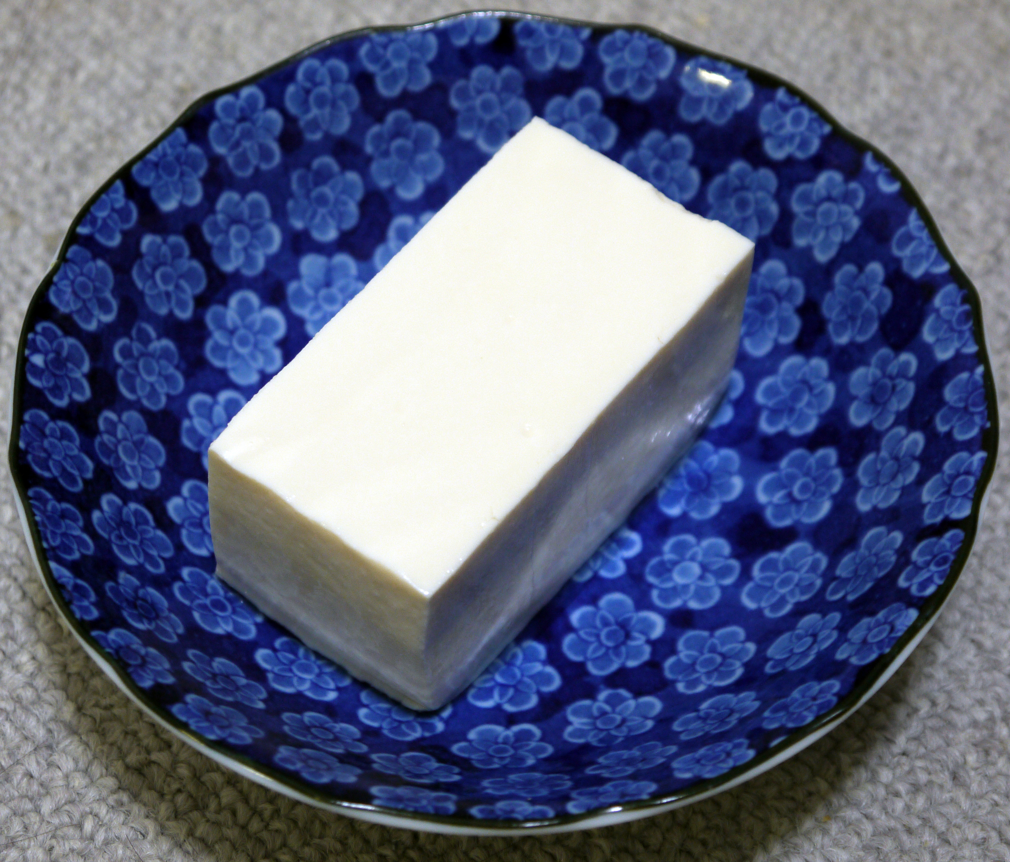 Japanese SilkyTofu (Kinugoshi Tofu)